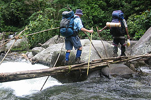 Kokoda Track creek crossing, Papua New Guinea